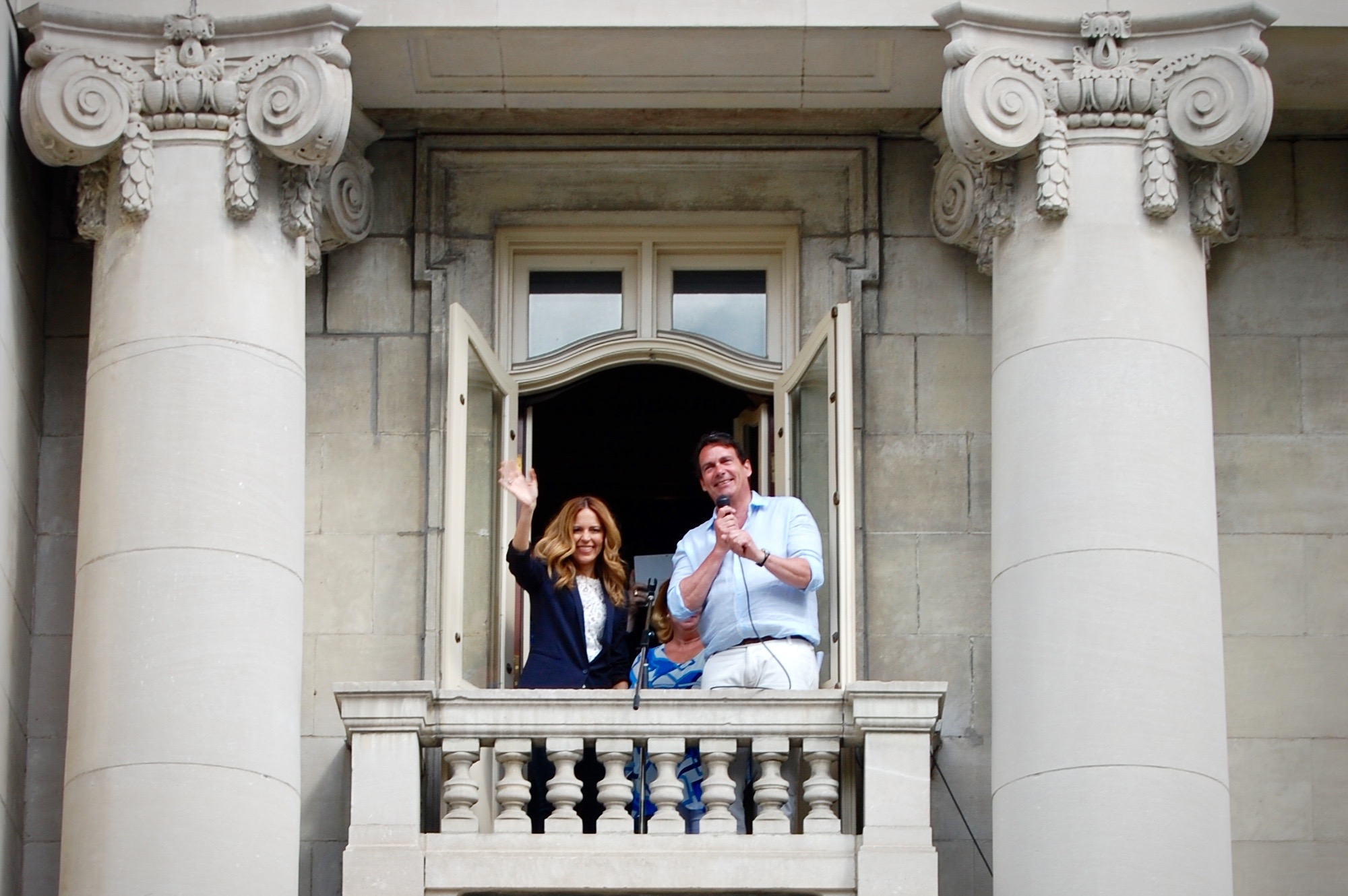 National Holiday or Saint-Jean-Baptiste Day (2015-06-15), Château Dufresne, 4040 Sherbrooke Street East, Montreal, Quebec, Canada.